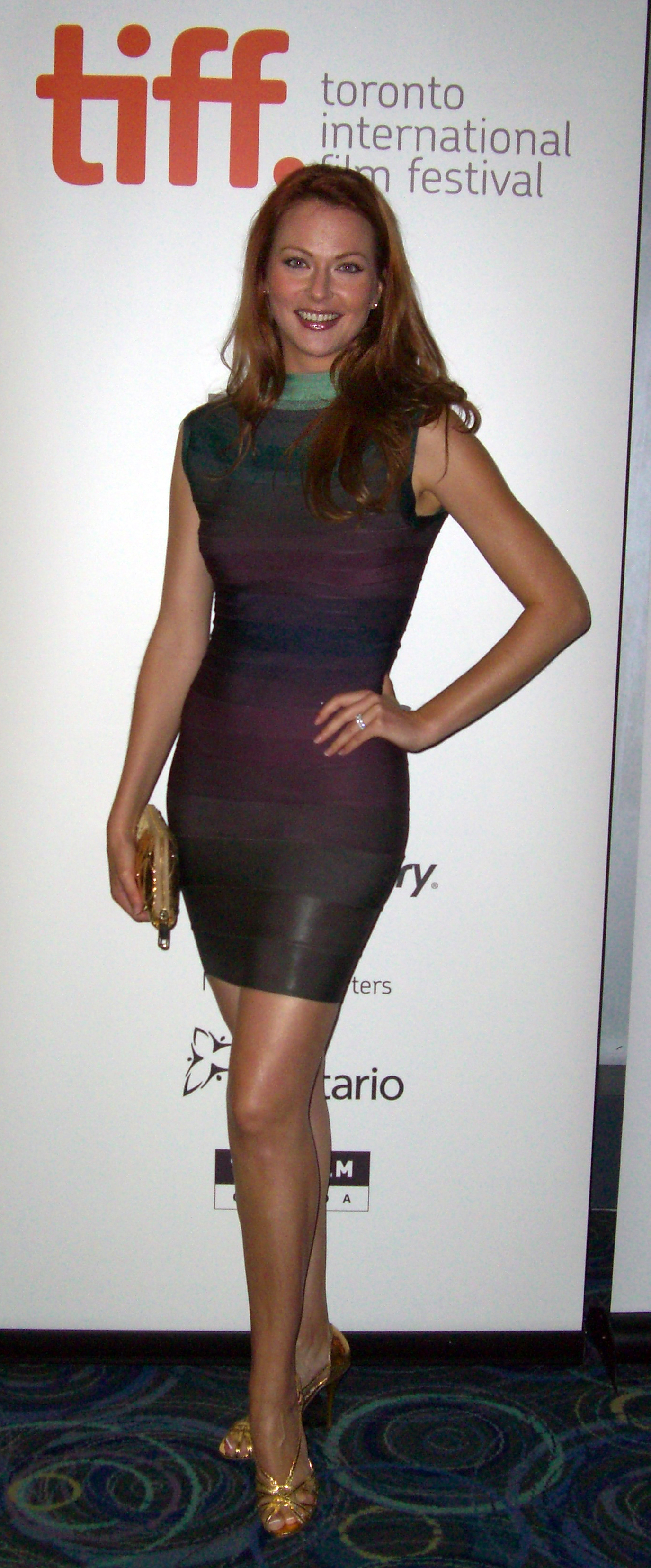 Anna Easteden at the Toronto Film Festival in a movie premiere